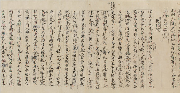 This is a page of the Kanazawa edition of the Collected Works of Bai Juyi copied in 1231-1233 (poem-'The Everlasting Regret' ). The original copy was made by Egaku in 844 CE. Egaku's copy is very close to the time when Bai Juyi himself assembled his works into this collection.